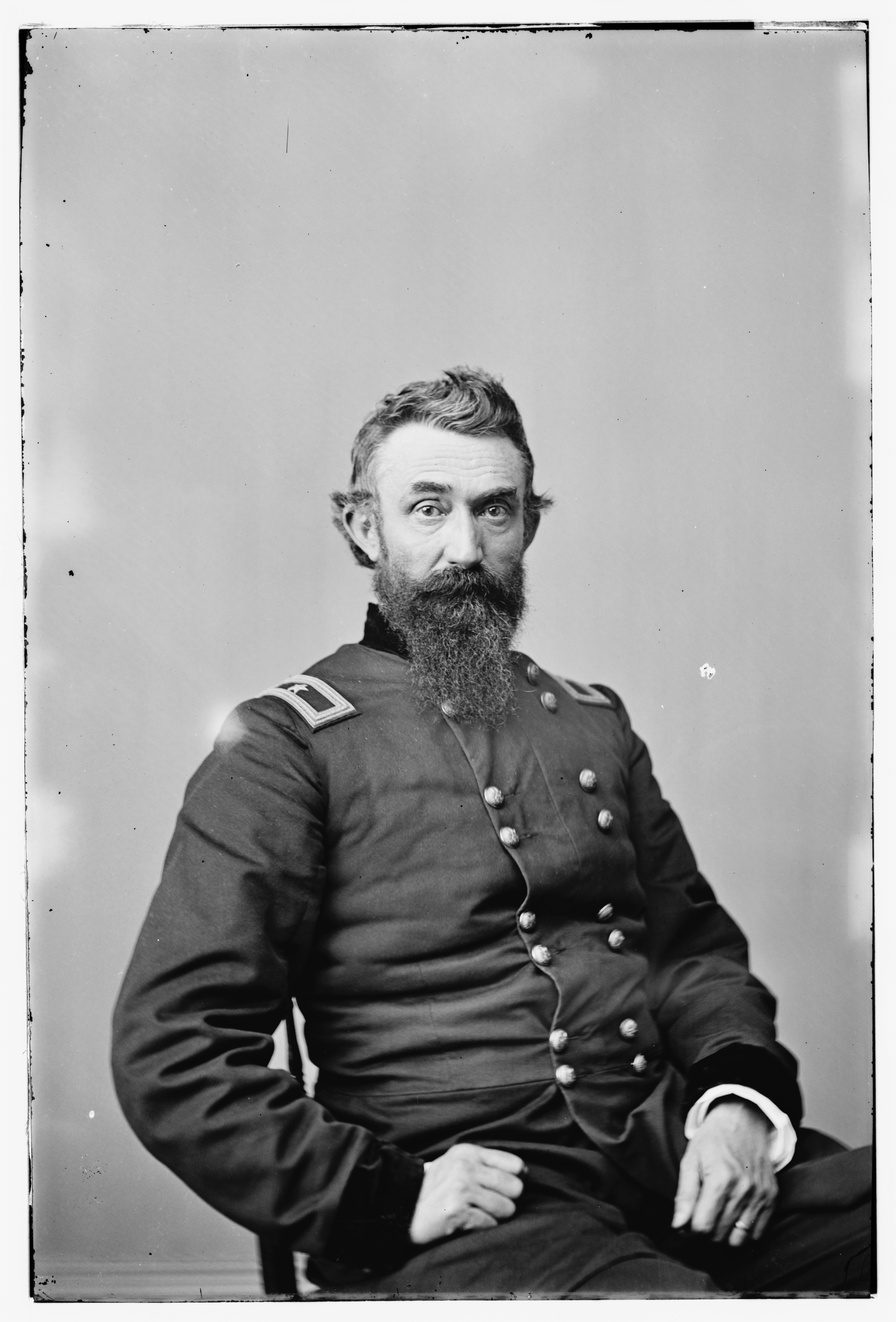 Title: Gen. Nathan Kimball Physical description: 1 negative